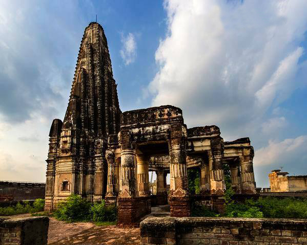 Jagannath OR Shawala Teja Singh temple is situated in Kashmiri Mohalla, Sialkot District, Punjab, Pakistan. This temple is dedicated to Shiva Temple. The temple was closed and destroyed after the division of the Subcontinent in 1947. There were many idols before 1947 as per a local old man some idols were taken by Hindus when they were leaving for India and some were taken by pilgrims who were used to come from India and Pakistan before the '70s, after that it became a hinted place. The idols of Lord Shiva installed at the ancient temple had disappeared gradually as they had been vandalized several times, especially post-Babri Masjid demolition. Prime Minister of Pakistan, reopened the temple to the Hindus.